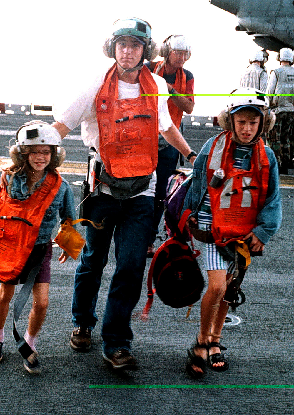 Evacuees from Freetown, Sierra Leone, are rushed across the flight deck of the USS Kearsarge (LHD 3), on May 30, 1997, during Operation Noble Obelisk. Over 900 people from 40 different countries have been evacuated.